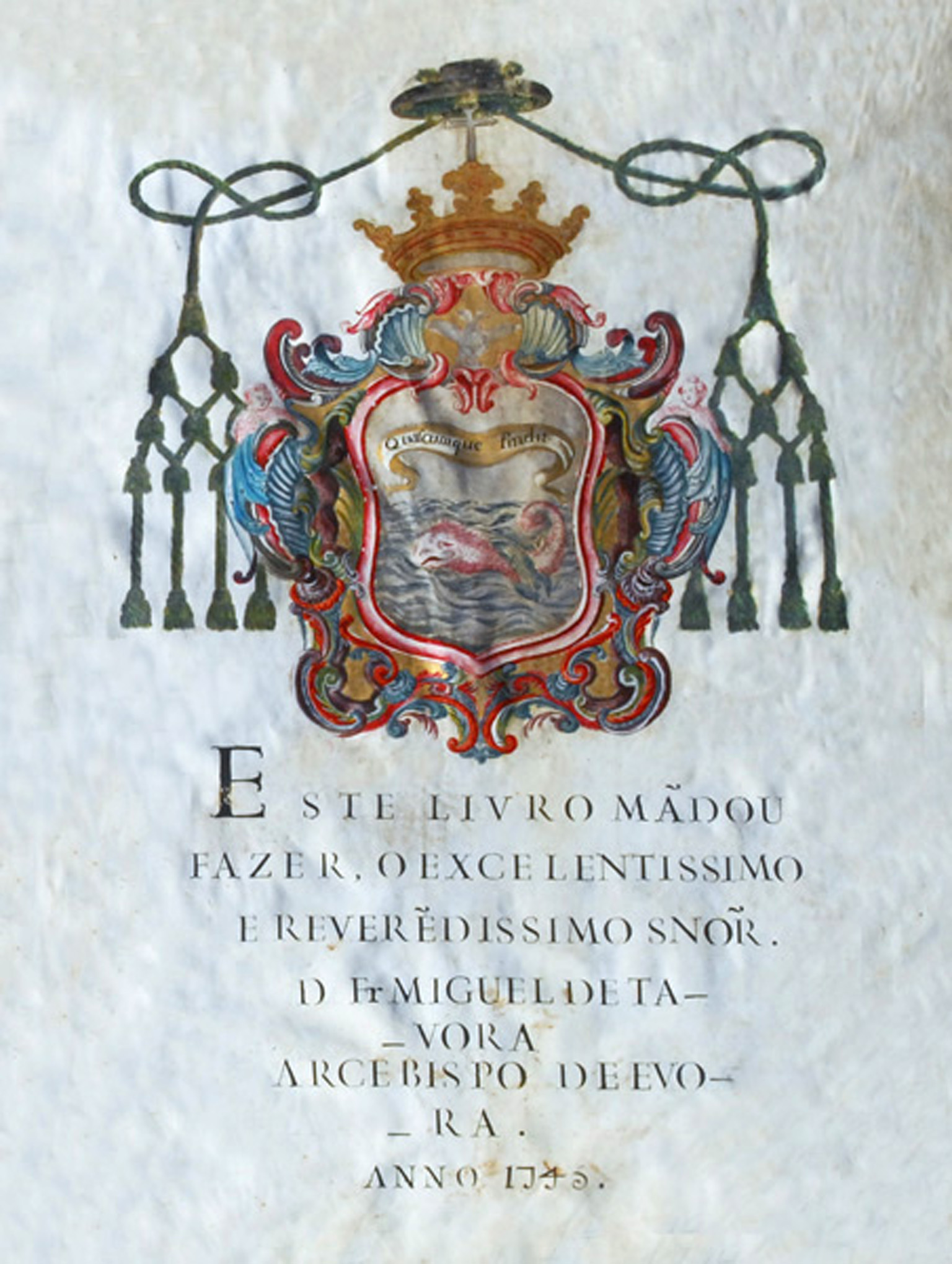 Coat of arms of Miguel de Távora, Archbishop of Évora, 1745